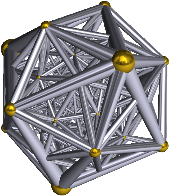 This is a schlegel diagram of 600-cell, cell-centered, wireframe.